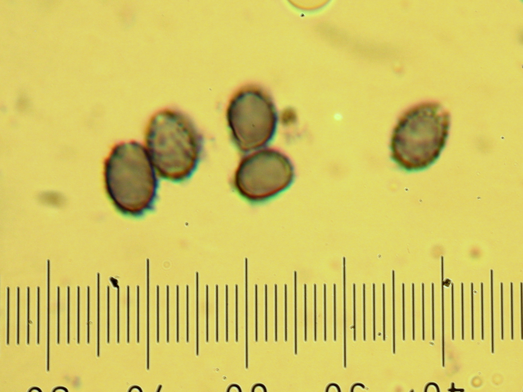 Template:Mushroomobserver